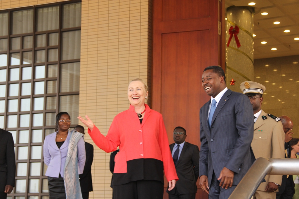 U.S. Secretary of State Hillary Rodham Clinton speaks with Togolese President Faure Gnassingbe in Lome, Togo, on January 17, 2012. [State Department photo/ Public Domain]